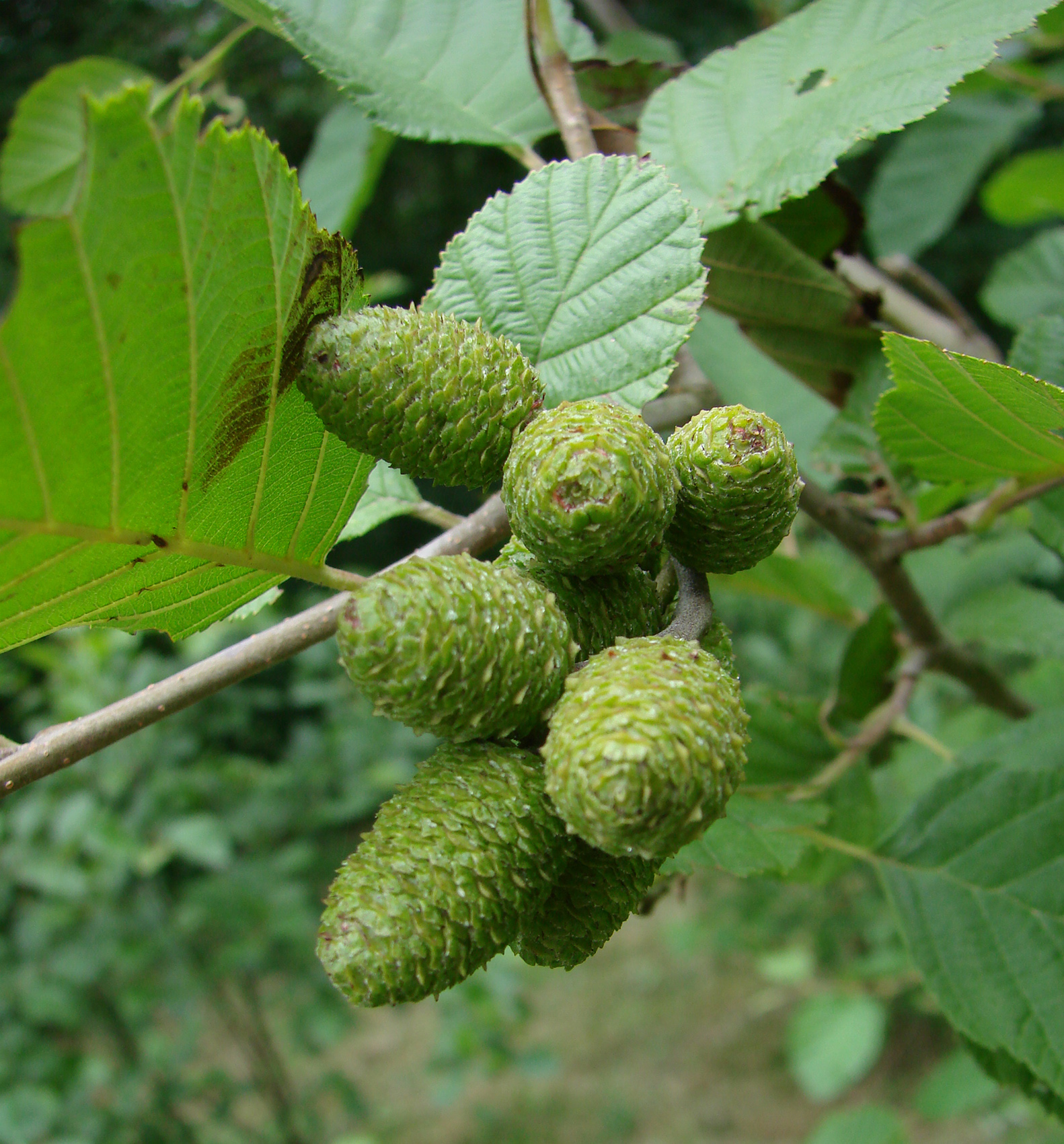 Fruit (non mature) of Alnus incana.